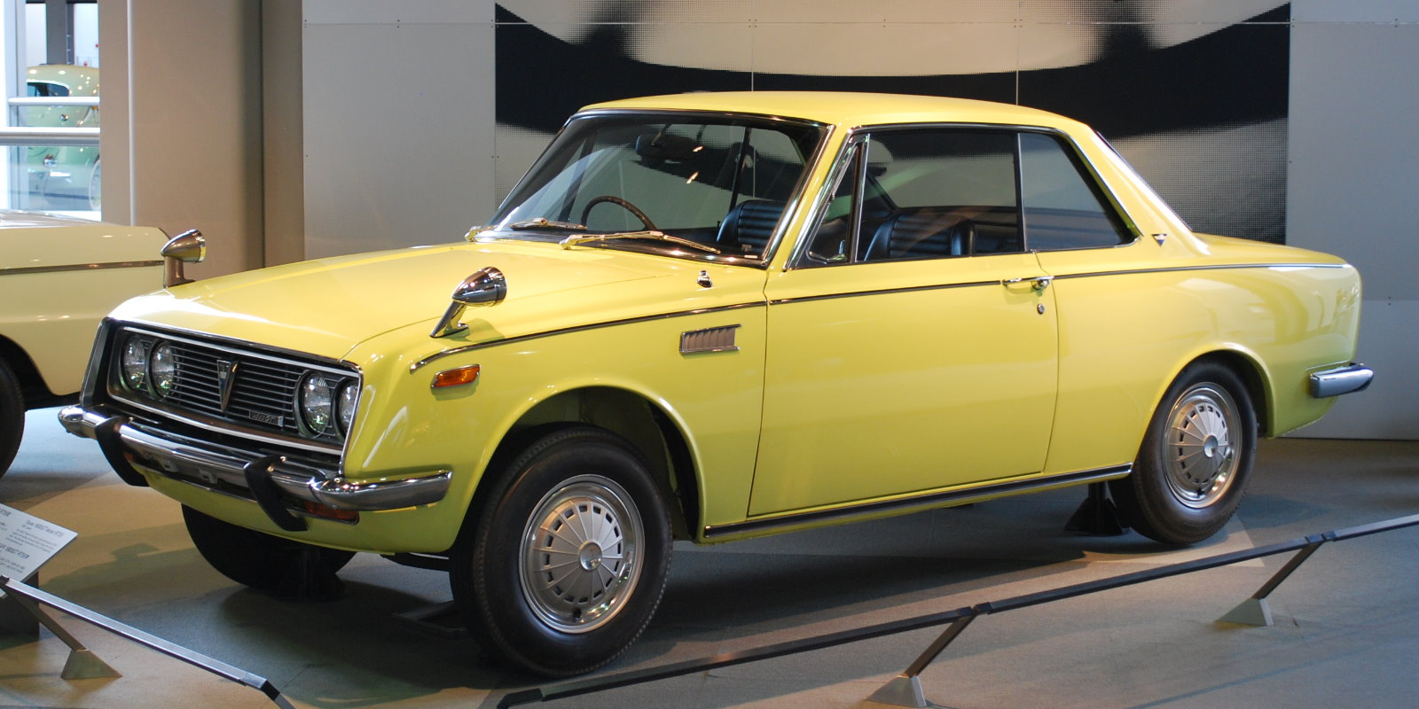 Toyota_1600GT Model RT55